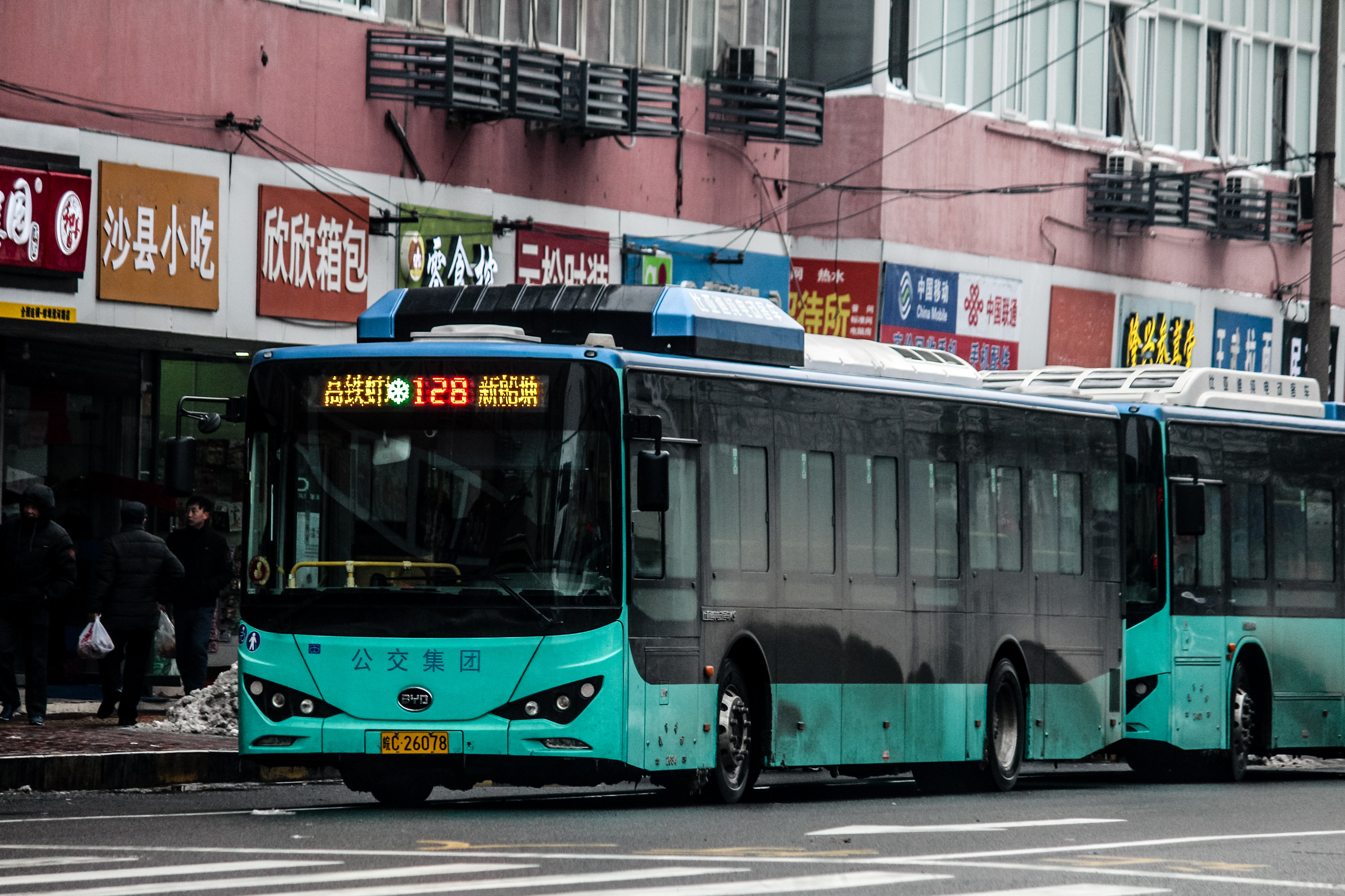 Bengbu Bus No.128